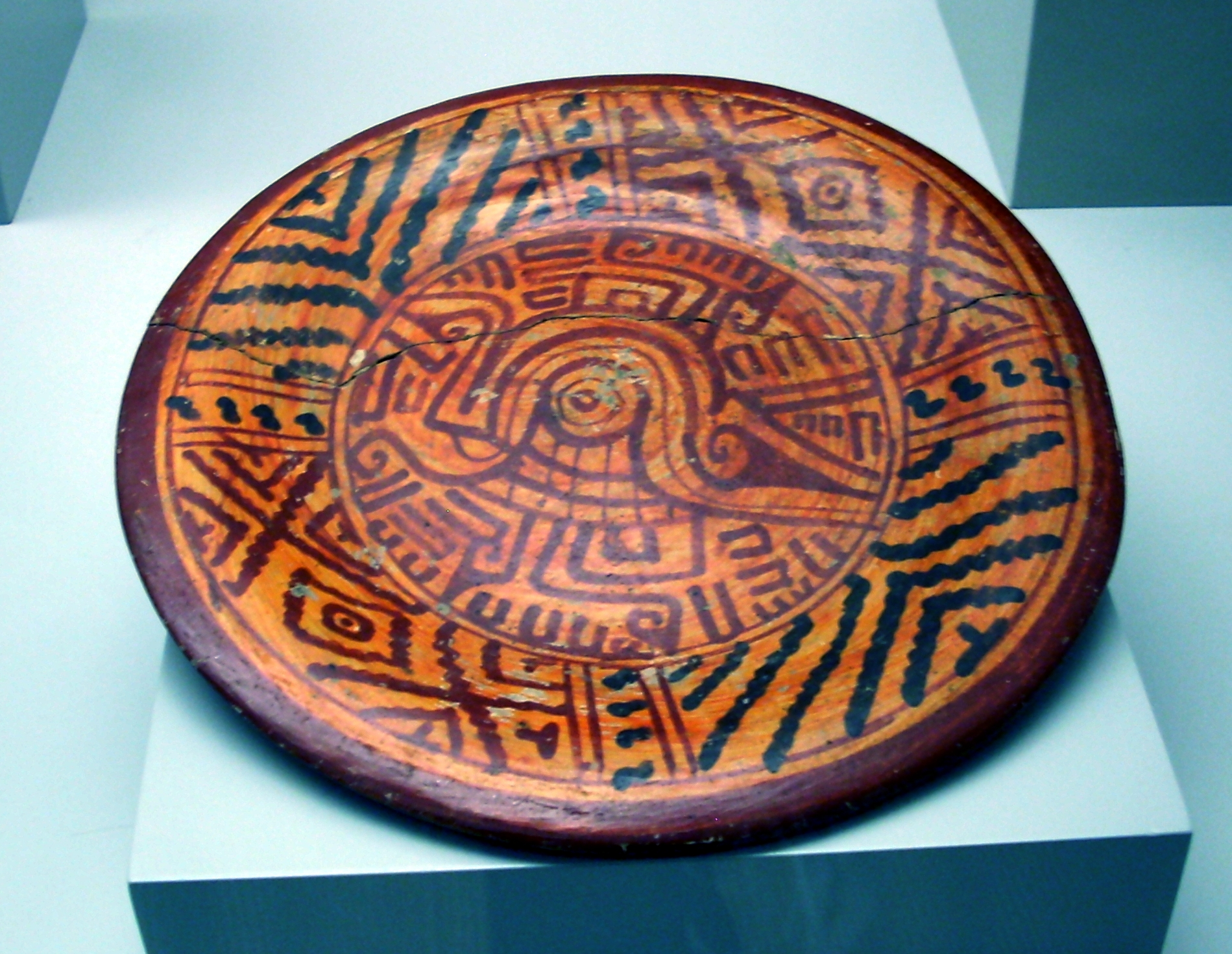 Mixteca-Puebla style plate in the Museum of the Americas, Madrid. Late Postclassic, originally from Mexico.